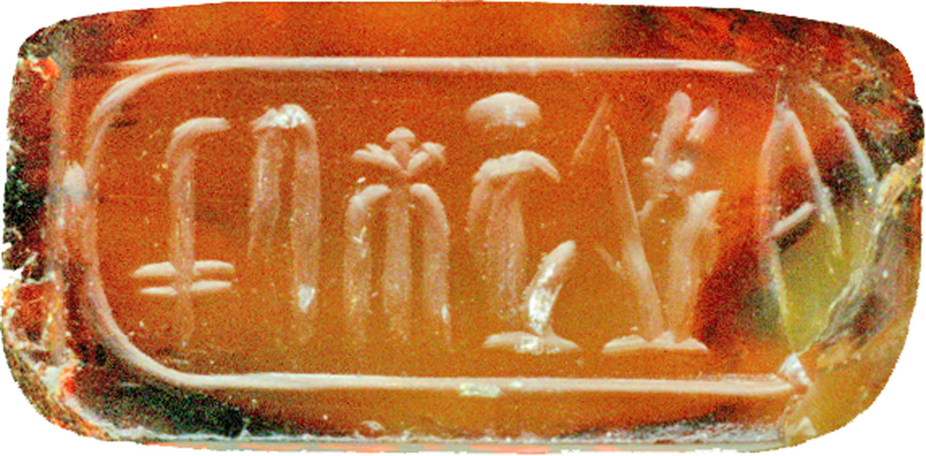 This is a small statuette of Pharaoh Ramesses II and a goddess made of carnelian. Both the goddesses Hathor and Isis are mentioned in the inscription on the back pillar. The piece is inscribed in two columns of text on the back pillar and the cartouche of the Ramesses II inscribed under the base. The two figures stand against a wide back pillar, on a low base. The goddess stands on the proper left with her arm around the shoulders of the king. The right half of her face and her left foot have been broken away. She wears a low modius crown, tripartite wig and a sheath gown which is trimmed at the ankle and belted at the waist. The top of the king's head is level with the top of the crown of the goddess. He is depicted as a youth with a side lock and the index finger of his right hand raised to his lips. He wears a pleated mid-calf length shendyt with a pendulous sash. Both figures are adorned with a uraeus, bracelets and armbands. Although the face is quite small, the typical smiling mouth of Ramesses II is visible.